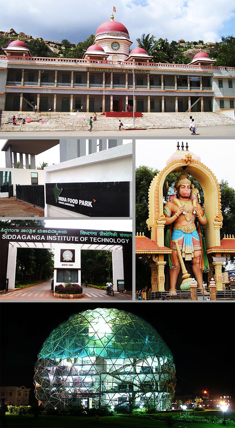 Montage of popular locations of Tumkur City